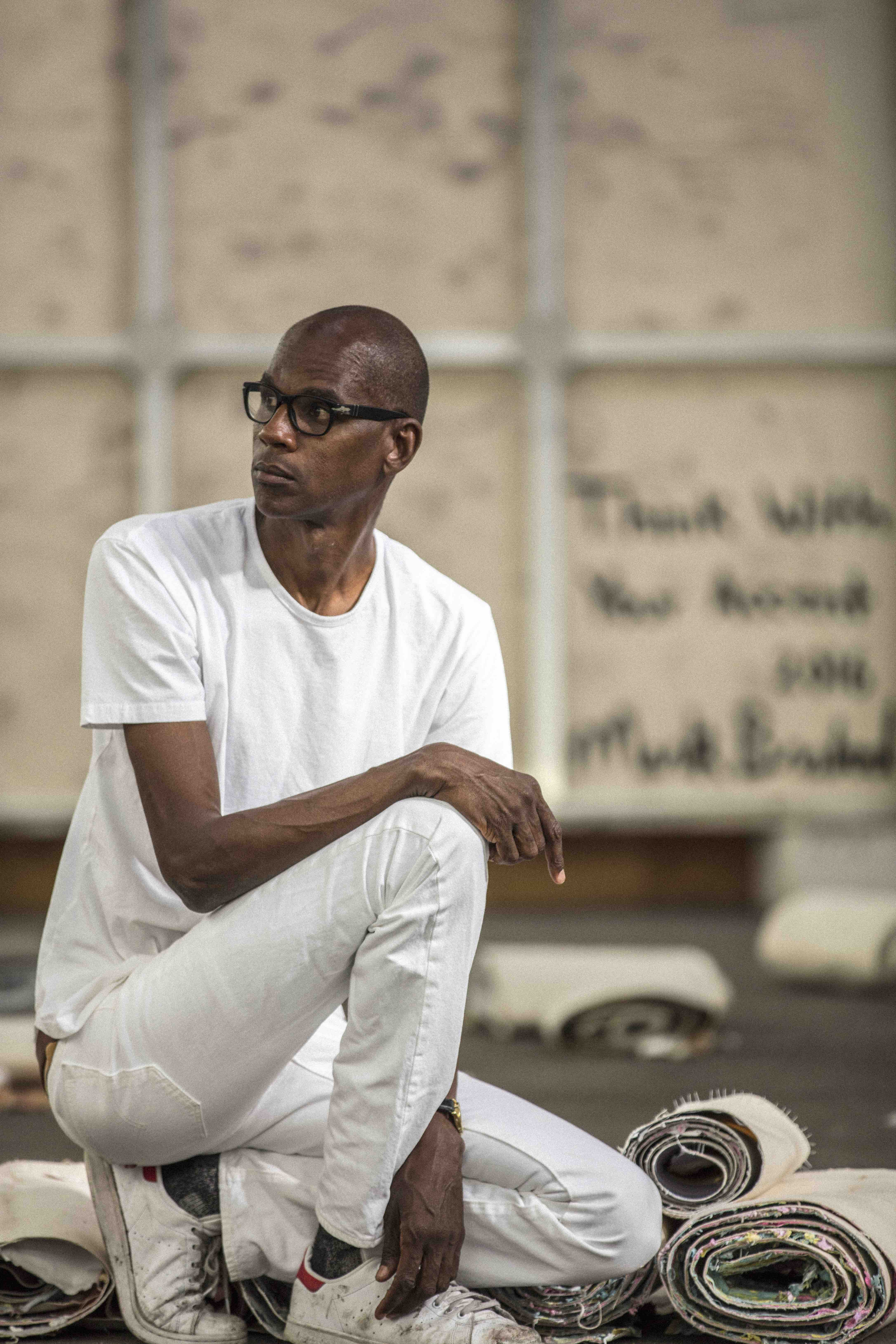 Mark Bradford portrait